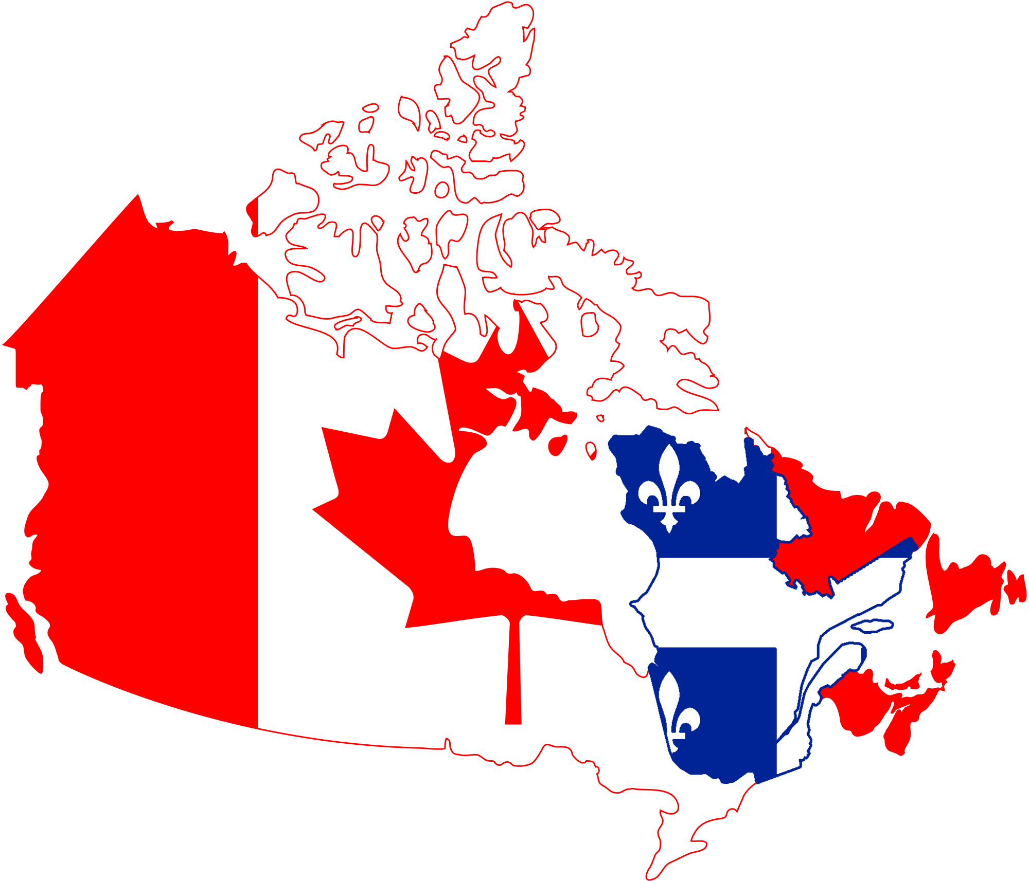 Flag Map of Canada and Quebec if Quebec becomes a separate nation.